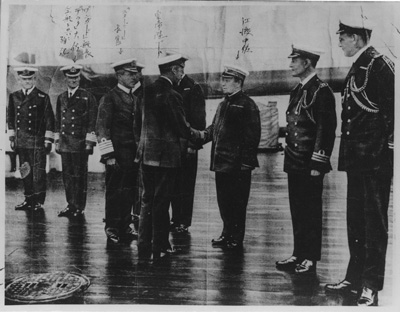 Captain Eto Kyosuke greeted by King George V